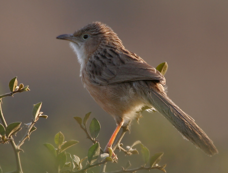 Common Babbler Turdoides caudata at Hodal, Faridabad, Haryana, India.